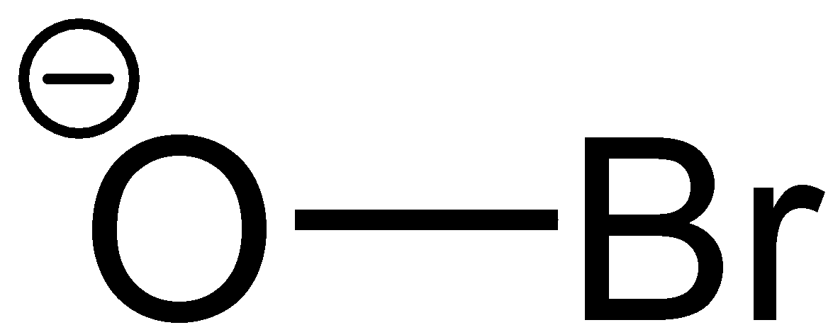 Hypobromition